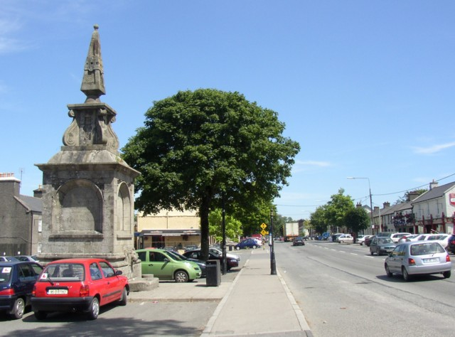 Street scene with the Marquis of Downshire's Memorial, Blessington, County Wicklow, Ireland